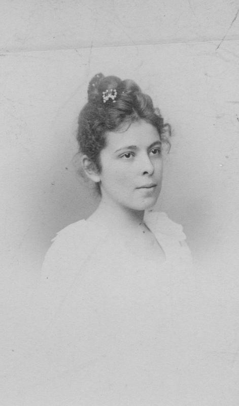 Title Alice Belin (du Pont) as a young woman Date Created 1892-05 Photographer Phillips, H. C. (Henry Chapman), 1843-1911 Former owner Du Pont, Pierre S. (Pierre Samuel), 1870-1954 Note Old ID number: P_D938 a/b Subject(s) Children Subject(s) - Name Du Pont, Alice Belin, 1872-1944 Alice Belin Du Pont, 1872-1944 Find all items with name(s) Phillips, H. C. (Henry Chapman), 1843-1911 Du Pont, Pierre S. (Pierre Samuel), 1870-1954 Du Pont, Alice Belin, 1872-1944 Genre portrait photographs Language English Type of resource still image Extent 1 photographic print : b&w